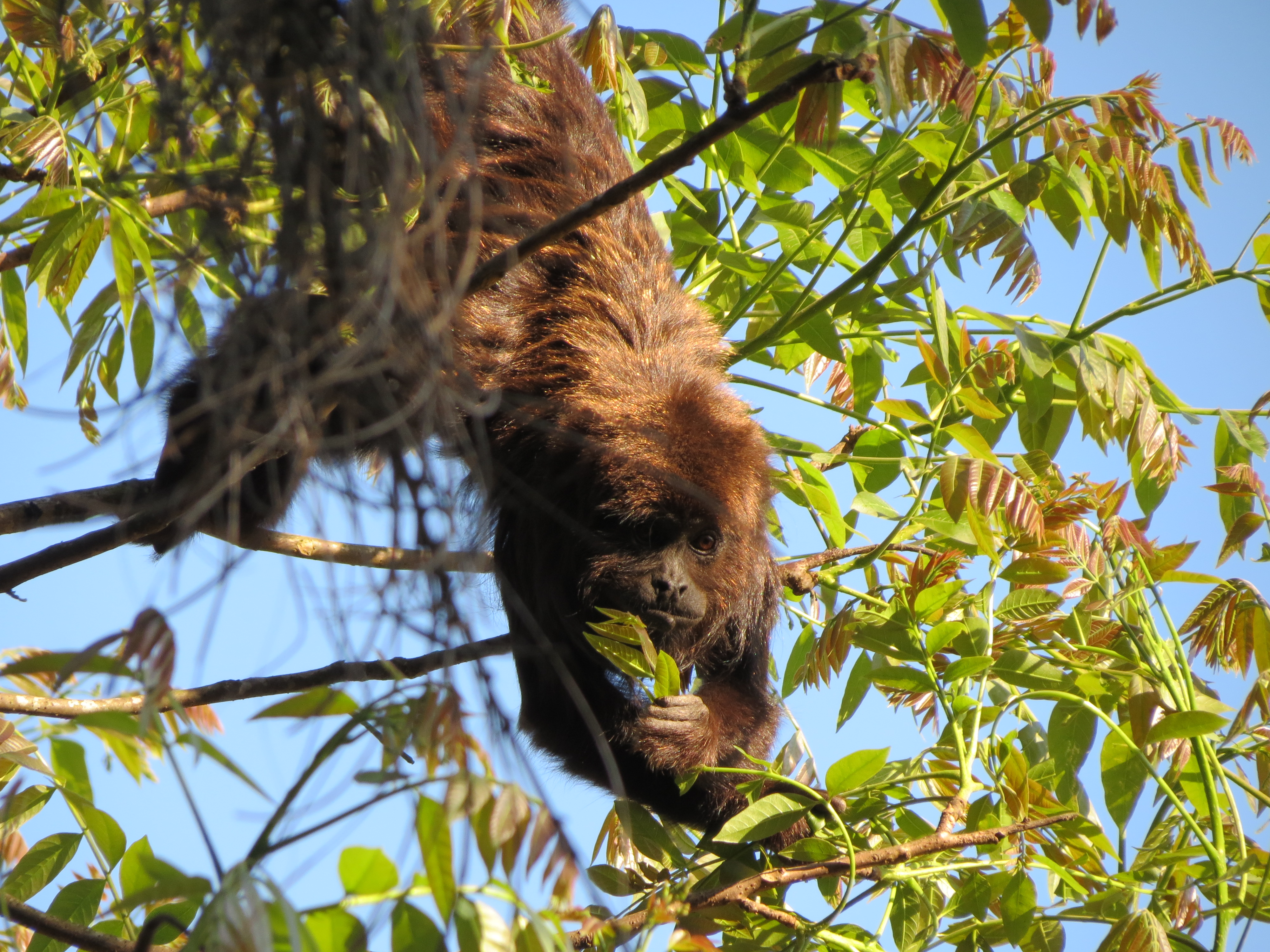 A female wild Southern brown howler monkey (Alouatta guariba clamitans) in São Paulo Zoo, eating leaves.